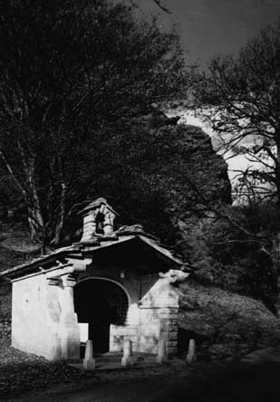 old Sonvico pictures